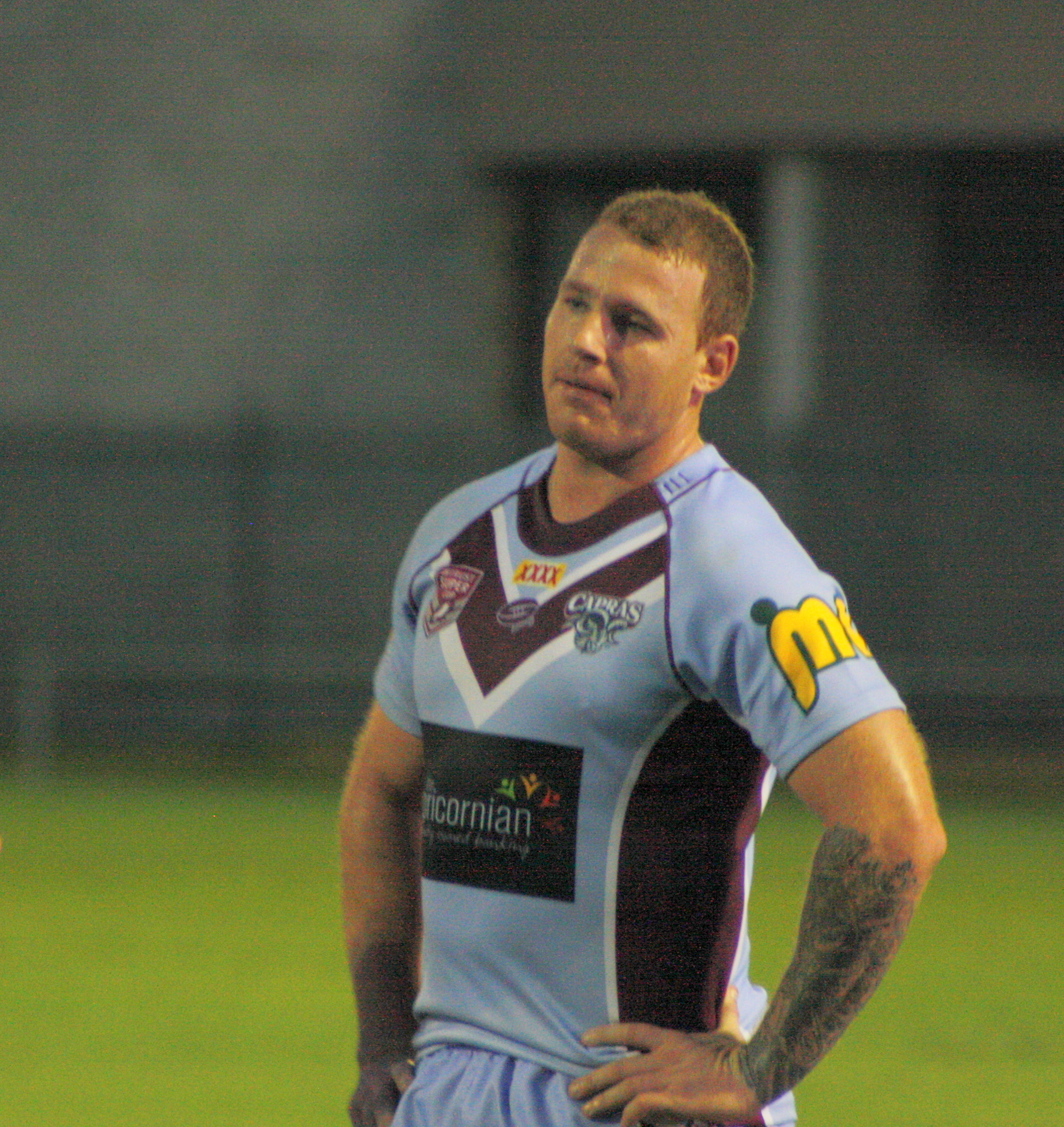 Matt Minto. Easts vs Capras. Intrust Super Cup. Langlands Park, 18 April 2015